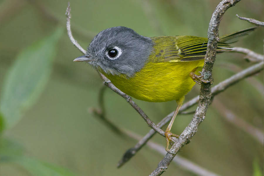 The species Grey-cheeked Warbler had been photographed from Khangchendzonga National Park during GoingWild's birding tour in West Sikkim, India on 18.02.2016.